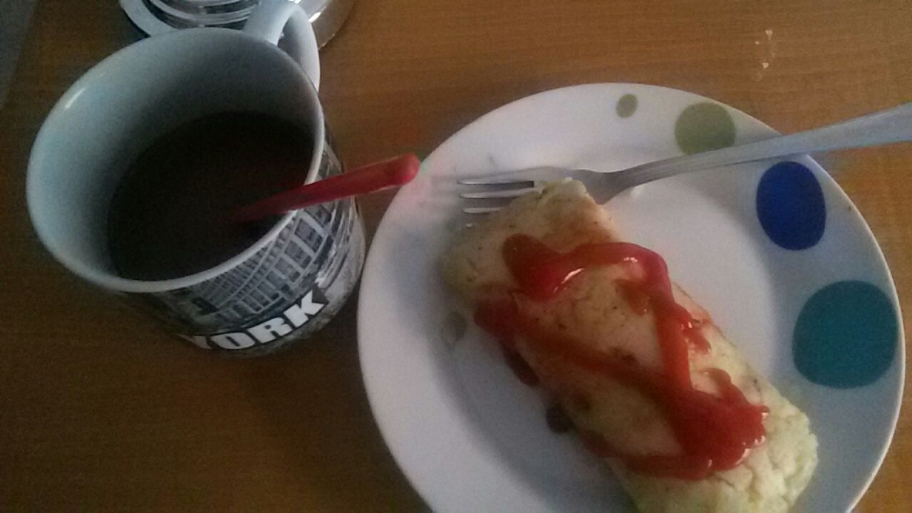 Hondurain Tamal and coffe